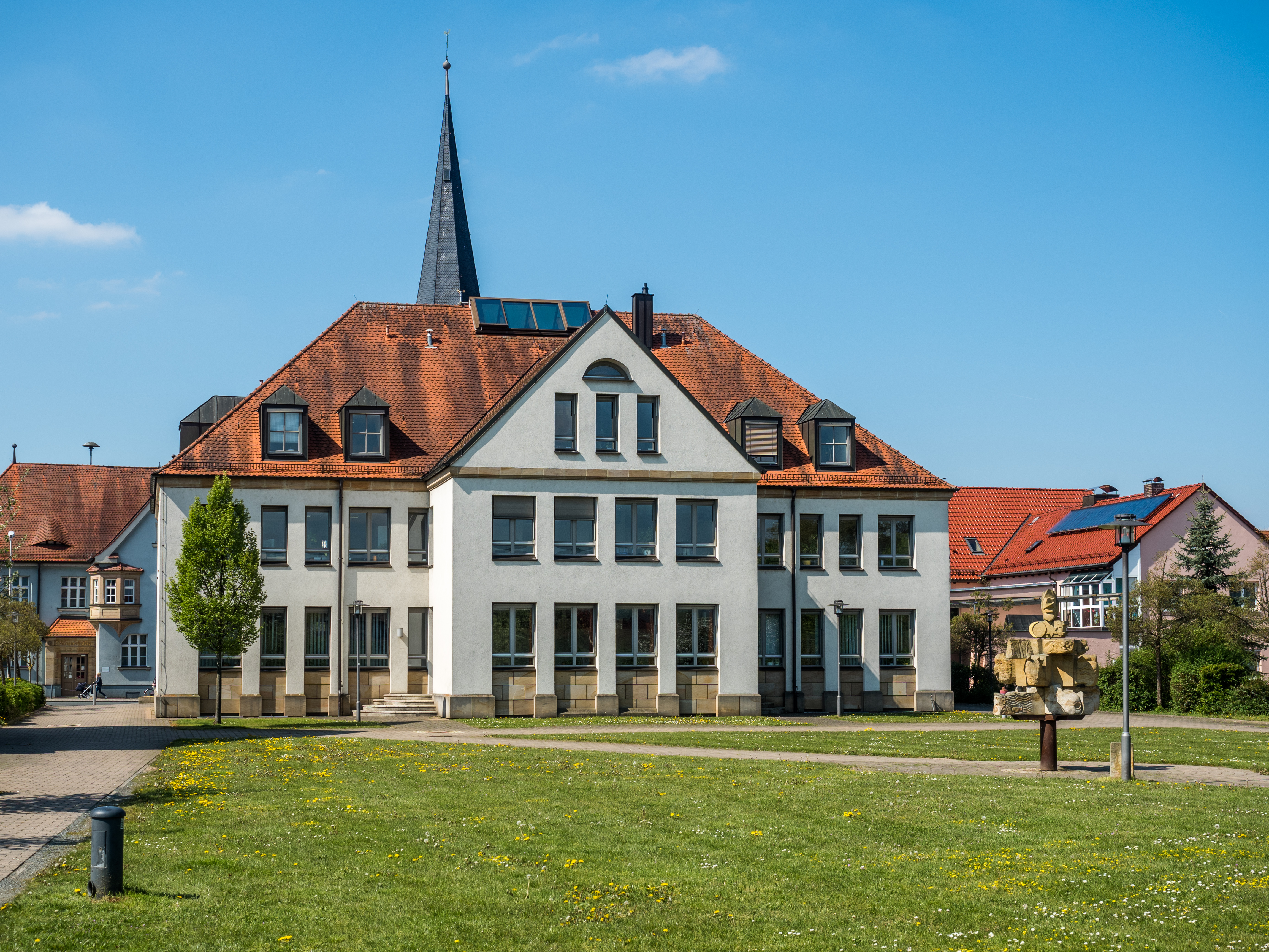 Townhall of Hirschaid